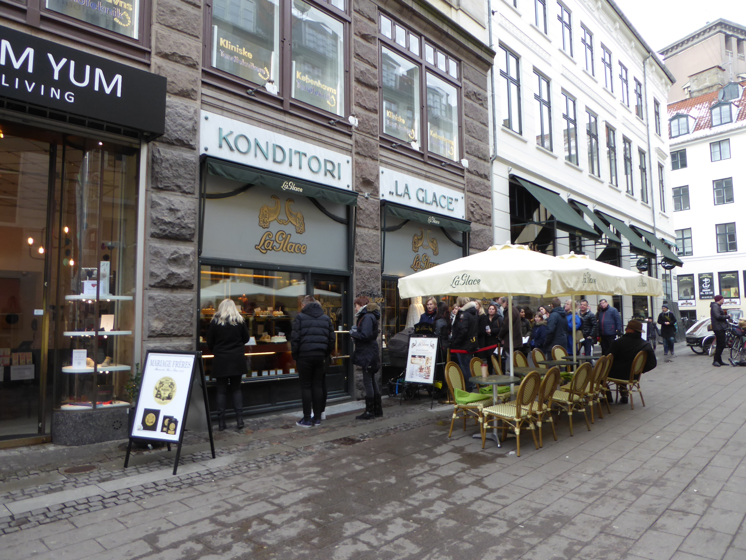 The cake shop La Glace at street Skoubogade in Indre By in Copenhagen.